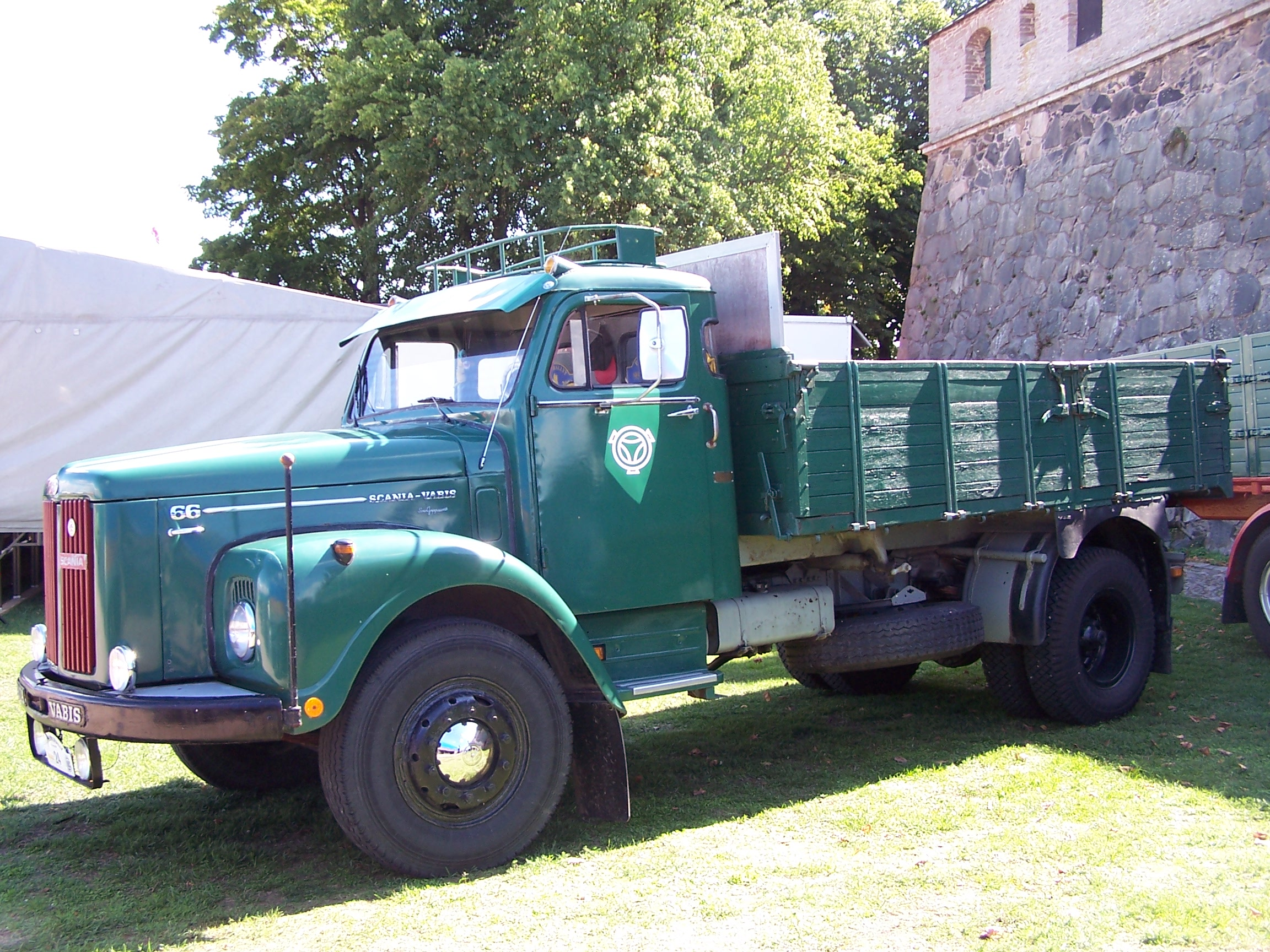 Scania Vabis L66 (year 1965).